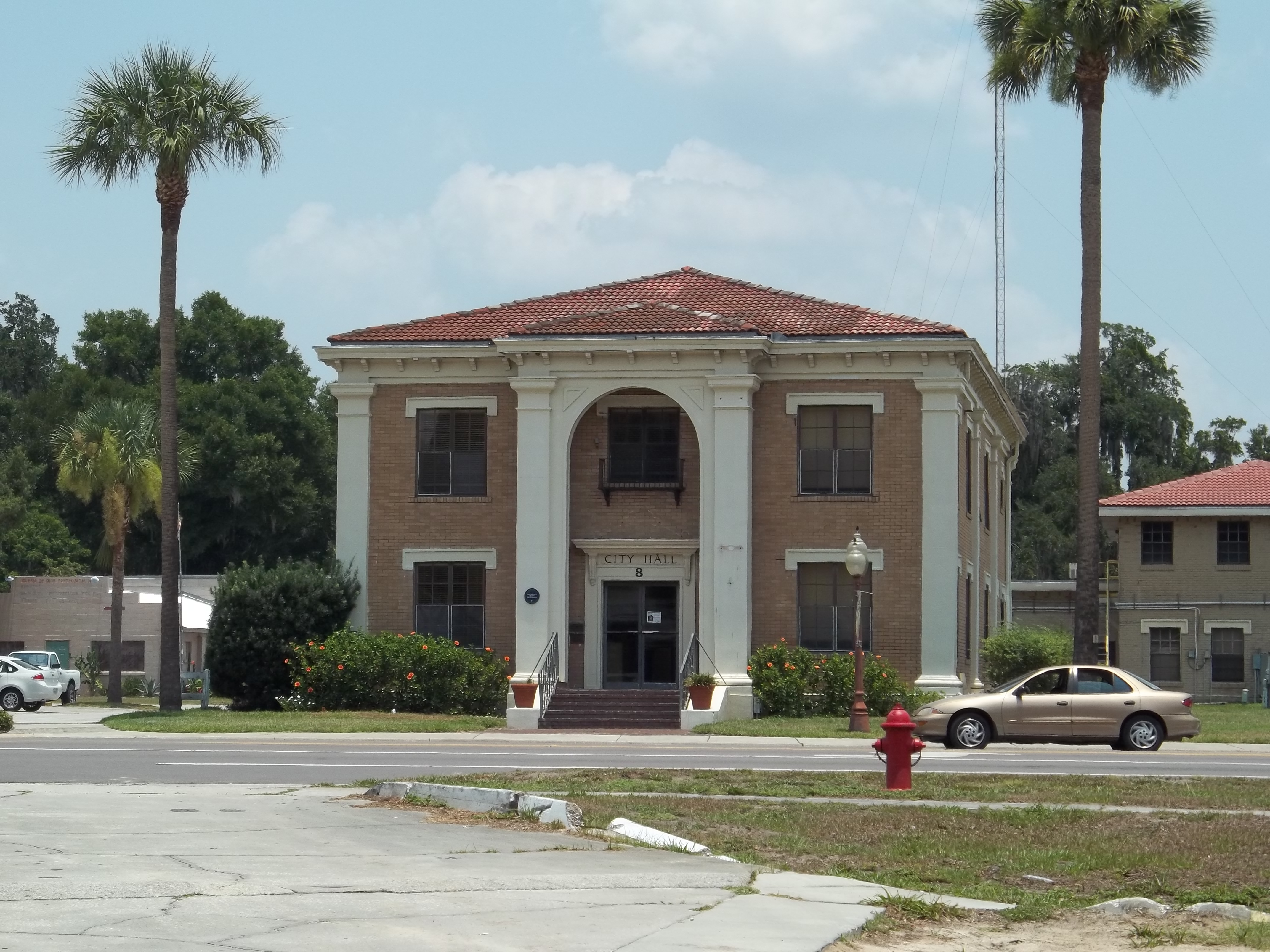 Fort Meade, Florida: Fort Meade Historic District: City hall